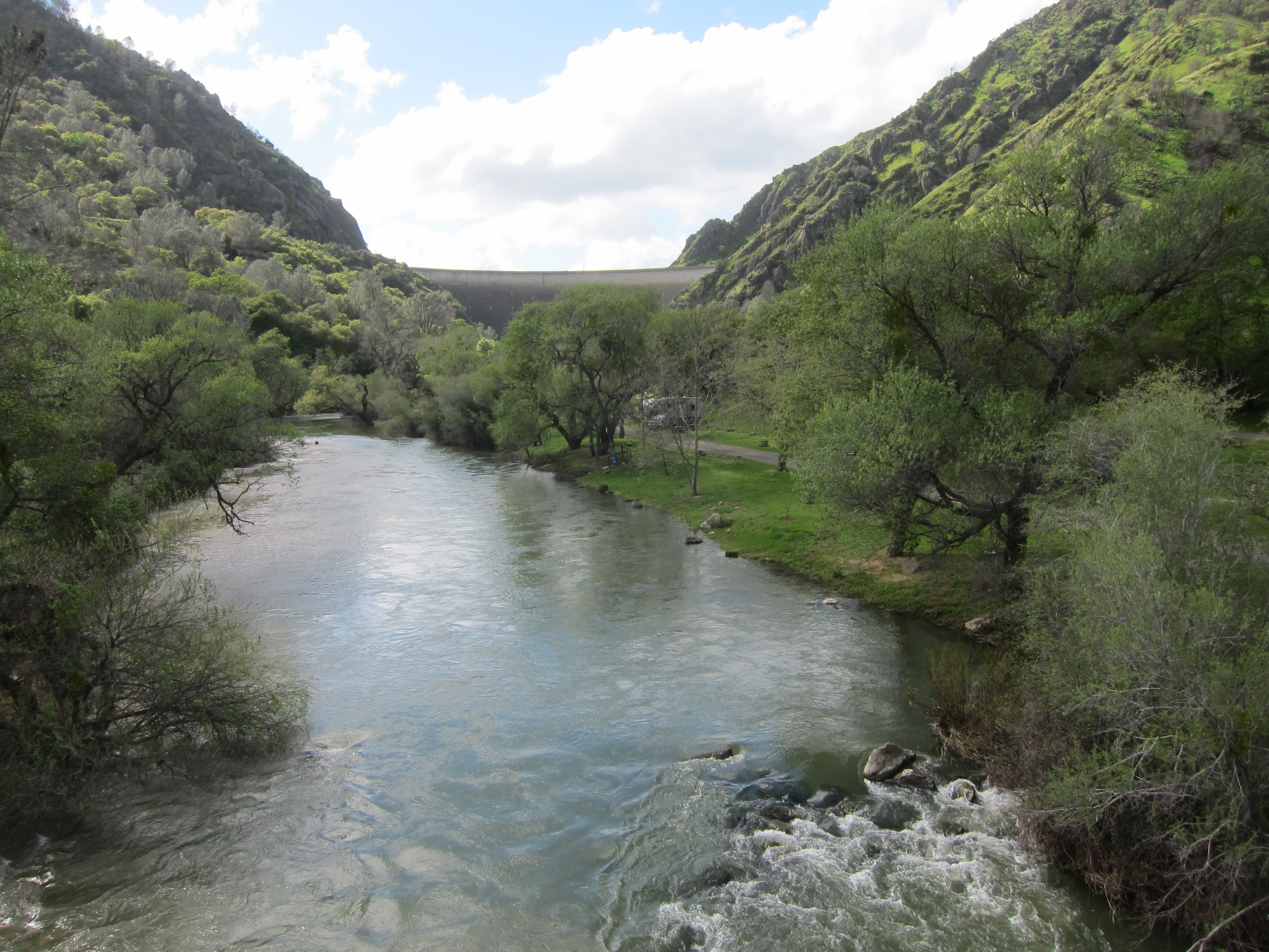 A view of Putah Creek from Highway 128 bridge, below Monticello Dam. High water flow of about 1000 cubic feet per second